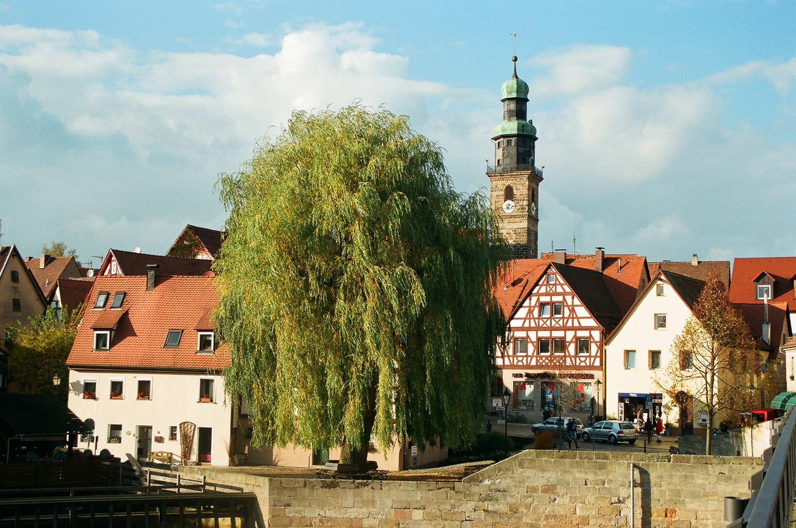 Lauf an der Pegnitz, view to the city